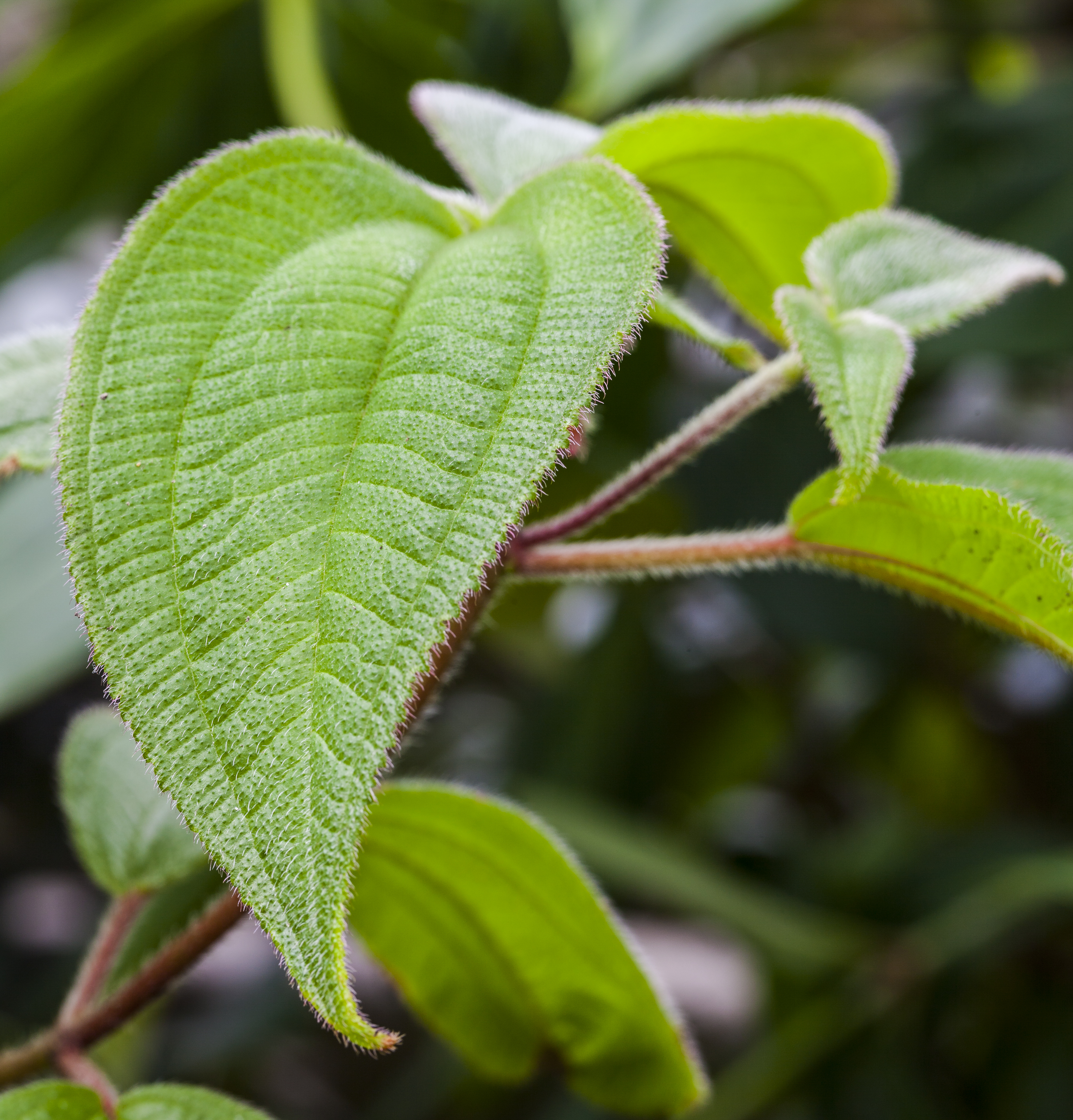 Acalypha cuneata, Munich Botanical Garden, Germany. This photograph appears to be mislabeled. It is of a plant in the Melastome family, not a Euphorb.